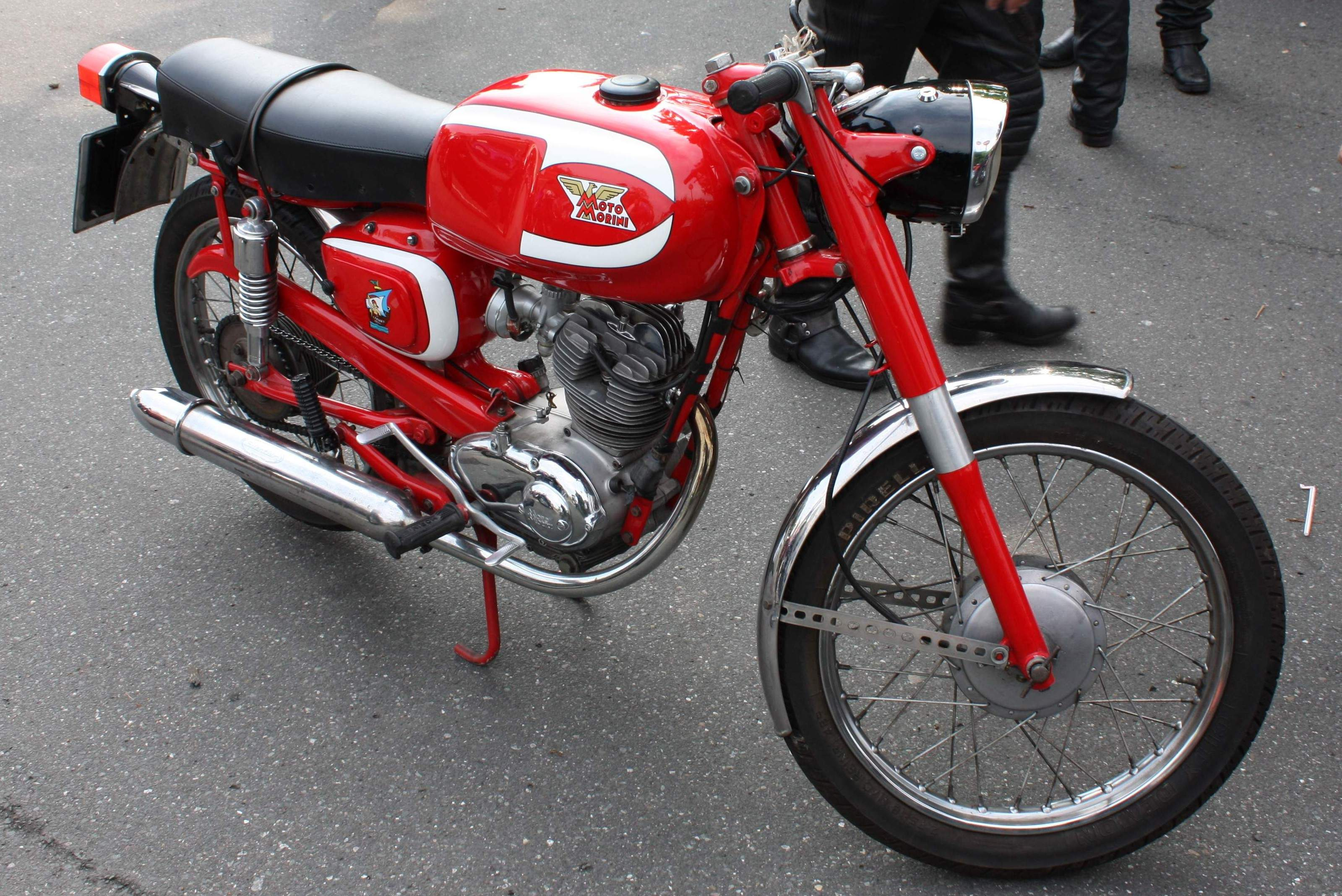 MotoMorini